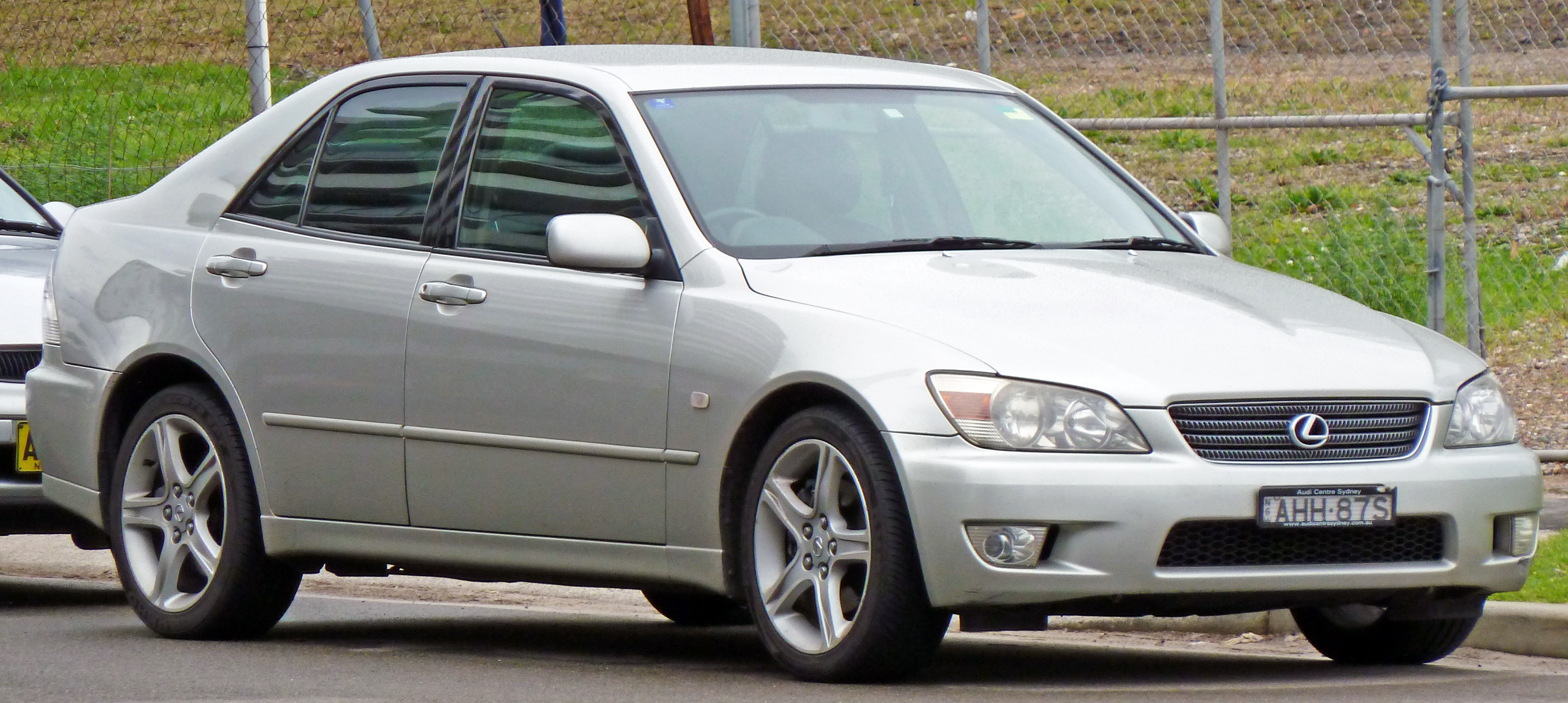 1999 Lexus IS 200 (GXE10R) sedan. Photographed in Zetland, New South Wales, Australia.